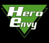 This is the logo for the Hero Envy web television series.